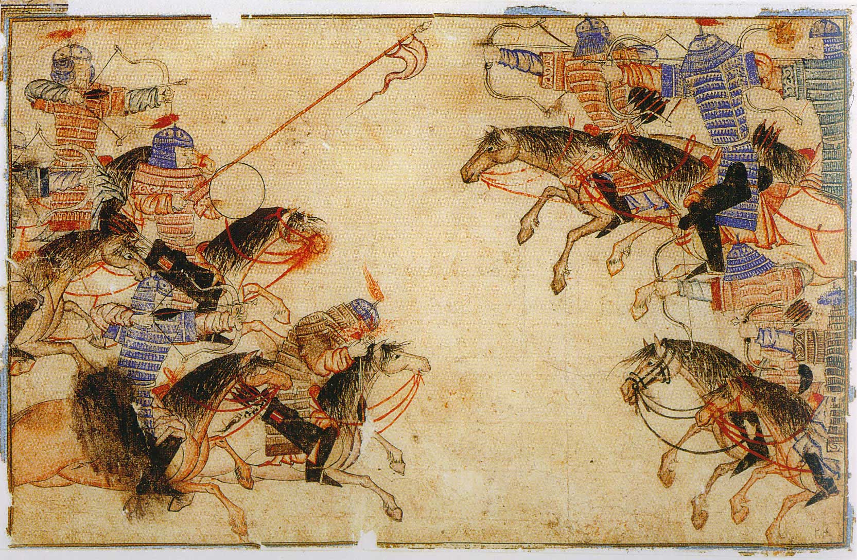 A confrontation between mounted archers. Illustration of Rashid-ad-Din's Gami' at-tawarih. Tabriz (?), 1st quarter of 14th century. Water colours on paper. Original size: 16.8 cm x 26.7 cm. Staatsbibliothek Berlin, Orientabteilung, Diez A fol. 70, p. 60.